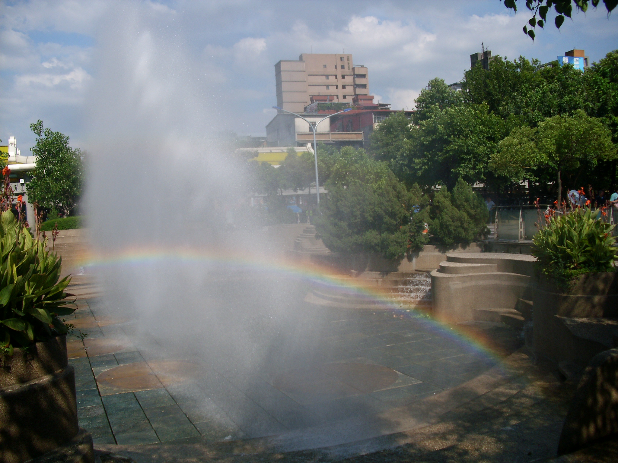 Mengxia ParkBân-lâm-gú: 艋舺公園美人照鏡池水舞